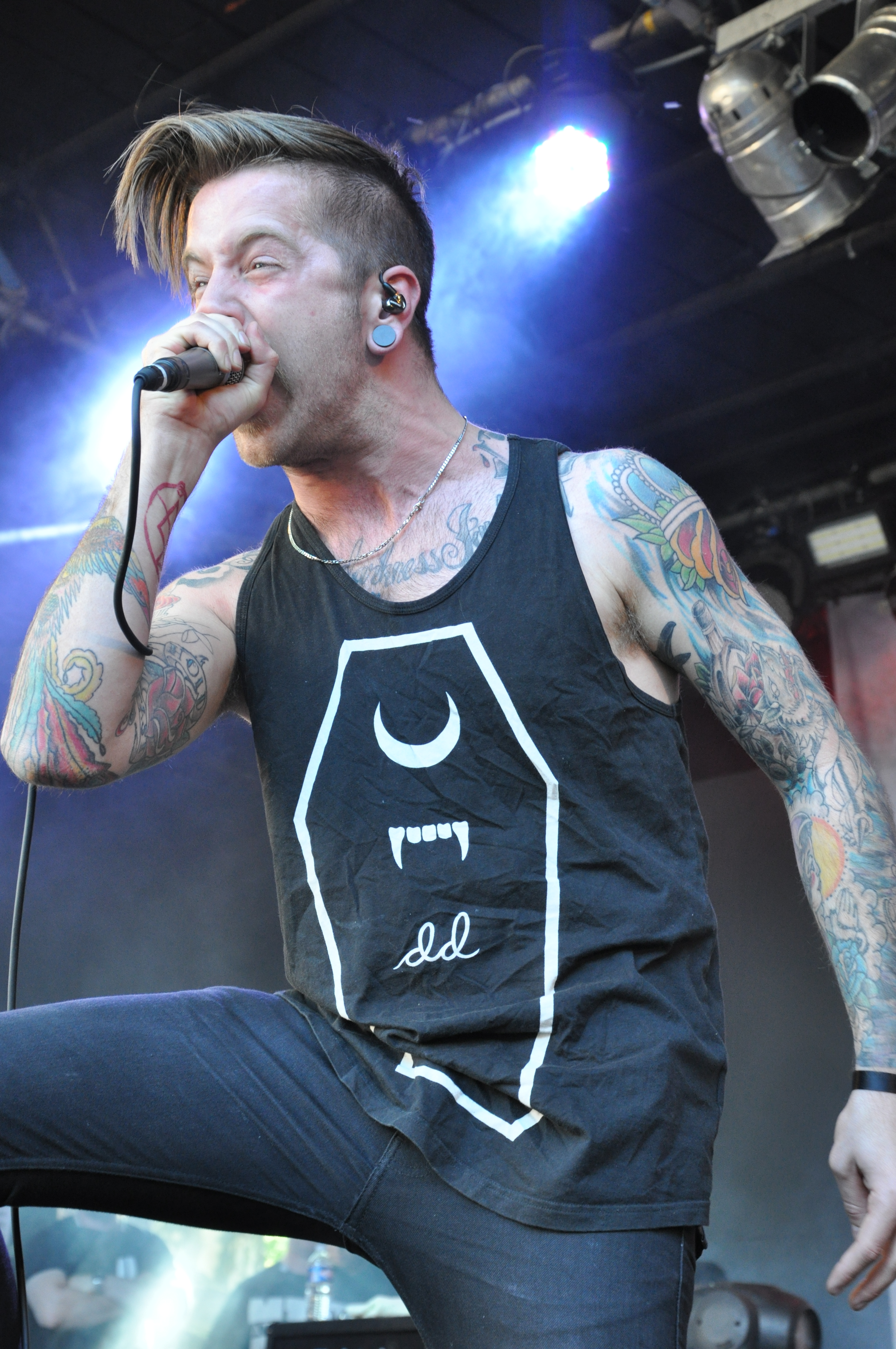 Bury Tomorrow auf dem Summerblast Festival 2014